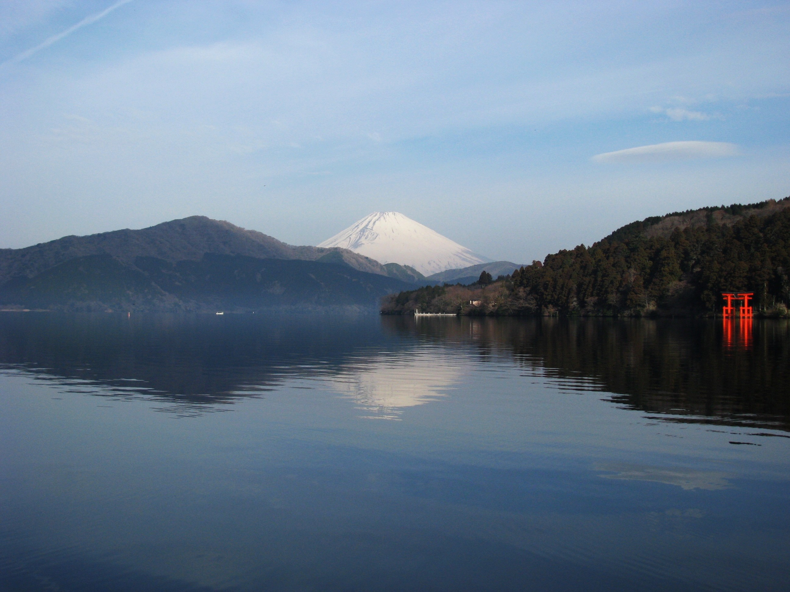 The Ashinoko and the Fuji-san. This place is Hakone, Ashigarashimo District, Kanagawa Prefecture, Japan.